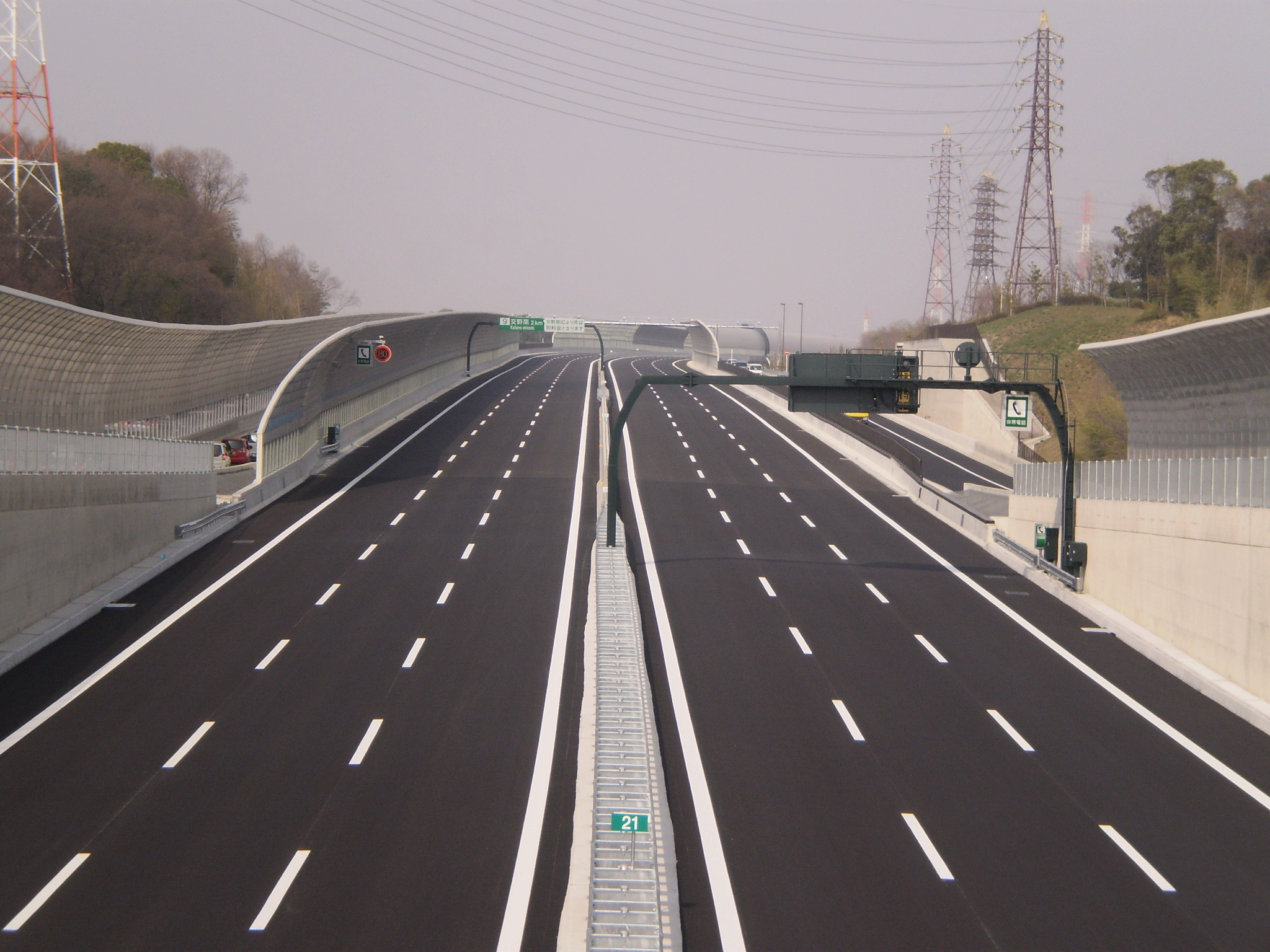 Daini keihan road. I took this image at Uzumasatakatsukacho Neyagawa City Osaka Pref., Japan.